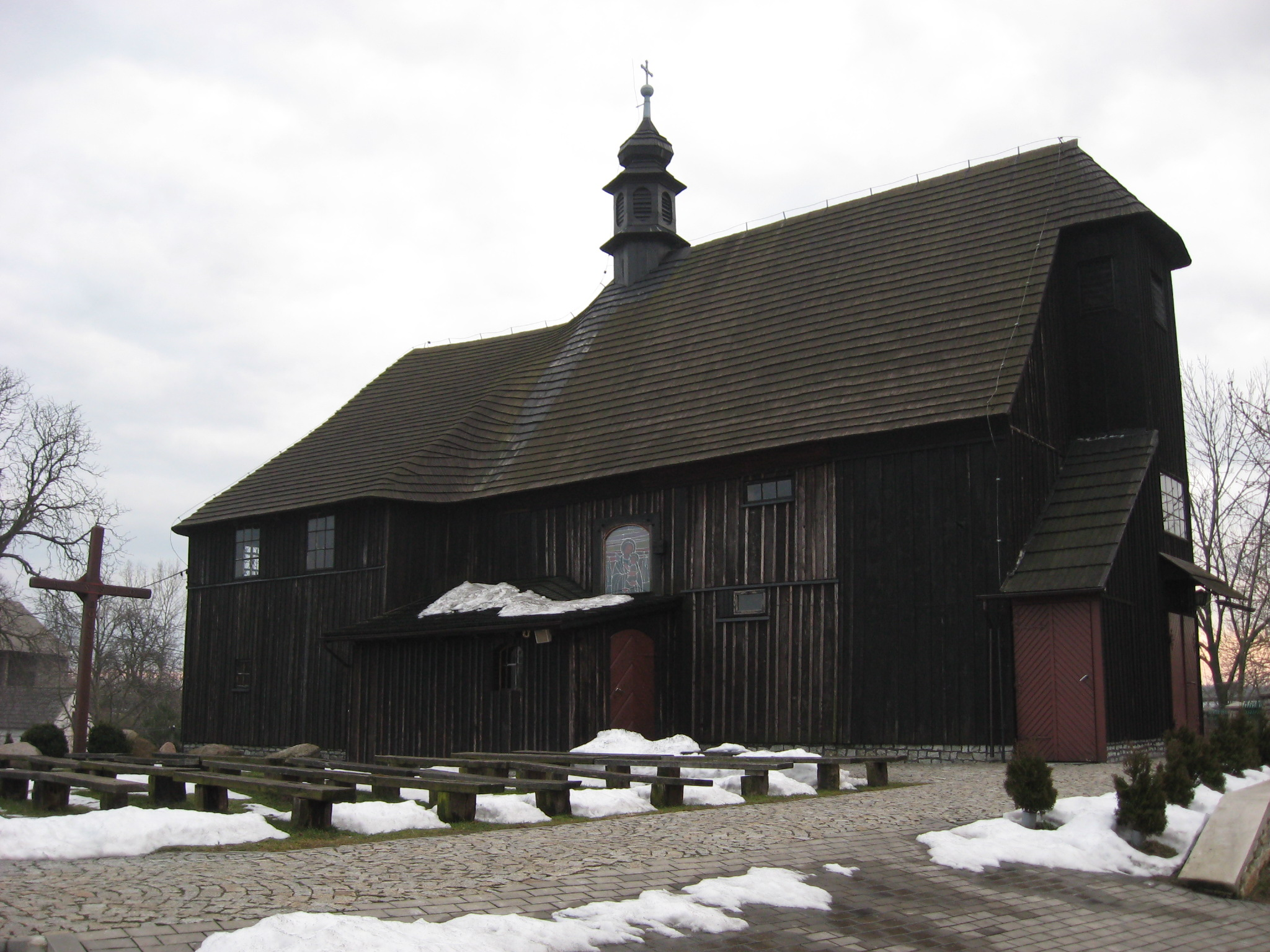 Saint Mary Magdalene church in Zimna Wódka